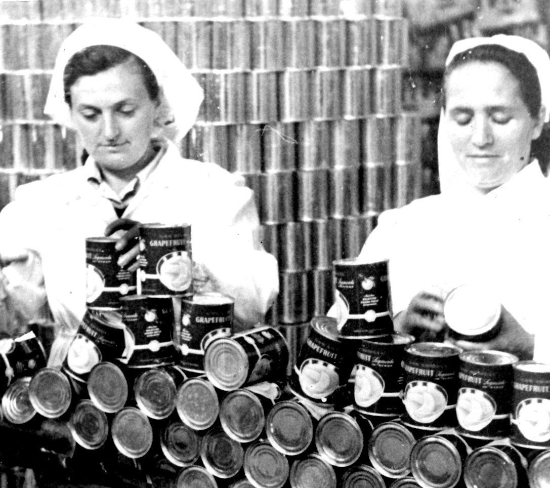 Gan-Shmuel - in the juice factory 1952, Industry in Israel